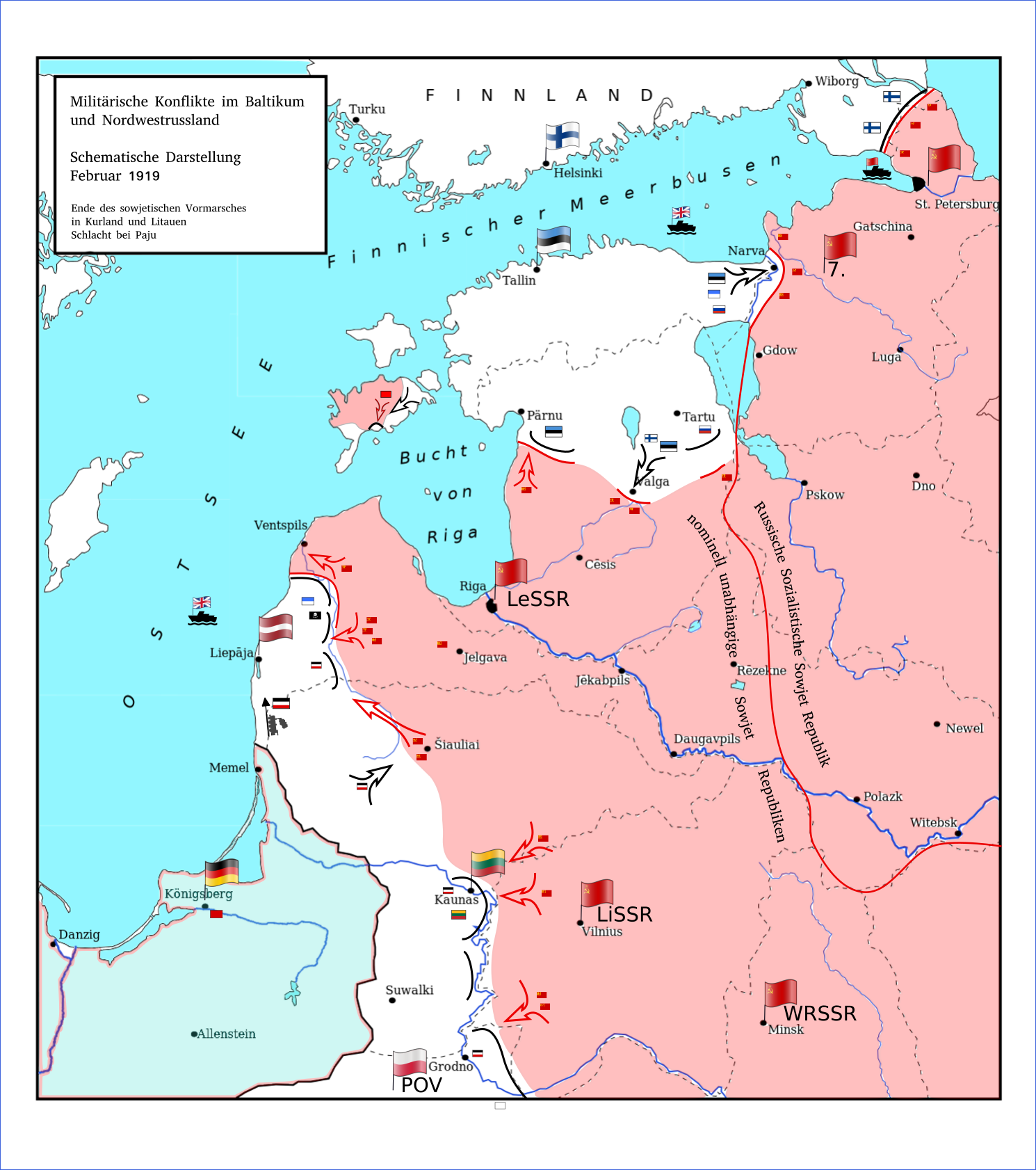 map of armed conflicts in the Baltics and North-West-Russia February 1919